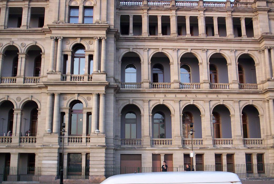 The old Treasury Building, William Street, Brisbane ( this photograph was taken by Figaro )